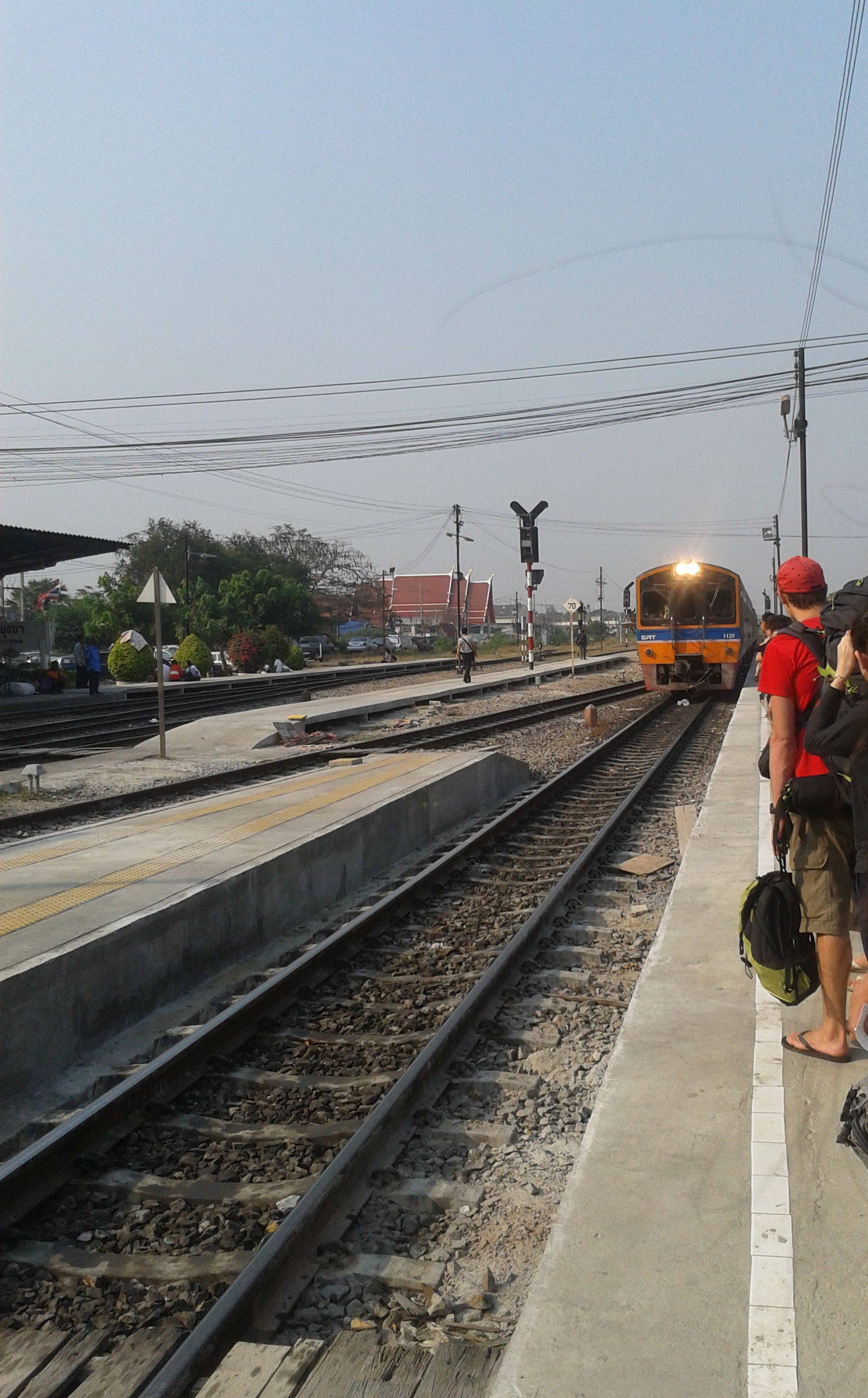 Ayutthaya railway station on the State Railway of Thailand mainline.